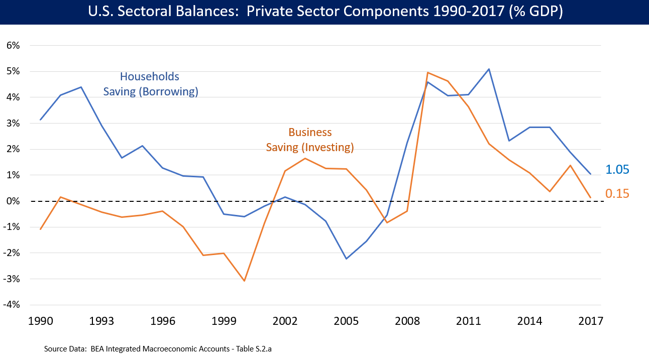 Private sector balance showing household and business as separate items.